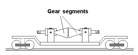 Illustrates counter-rotating gyro pair for stability on corners. Counter-rotating gyros avoid instability on corners.